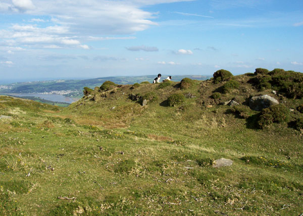 Caer Bach Prehistoric Hill Fort. Steep, stone-faced earth banks mark this excellent and well-positioned hill fort. This fort belongs to the first millennium BC and has a commanding position on the flank of the Conwy Valley. It is close to an excellent footpath which runs along the edge of the open common all the way from Conwy to the Bwlch-y-Ddeufaen - a historic route with many ancient markers.